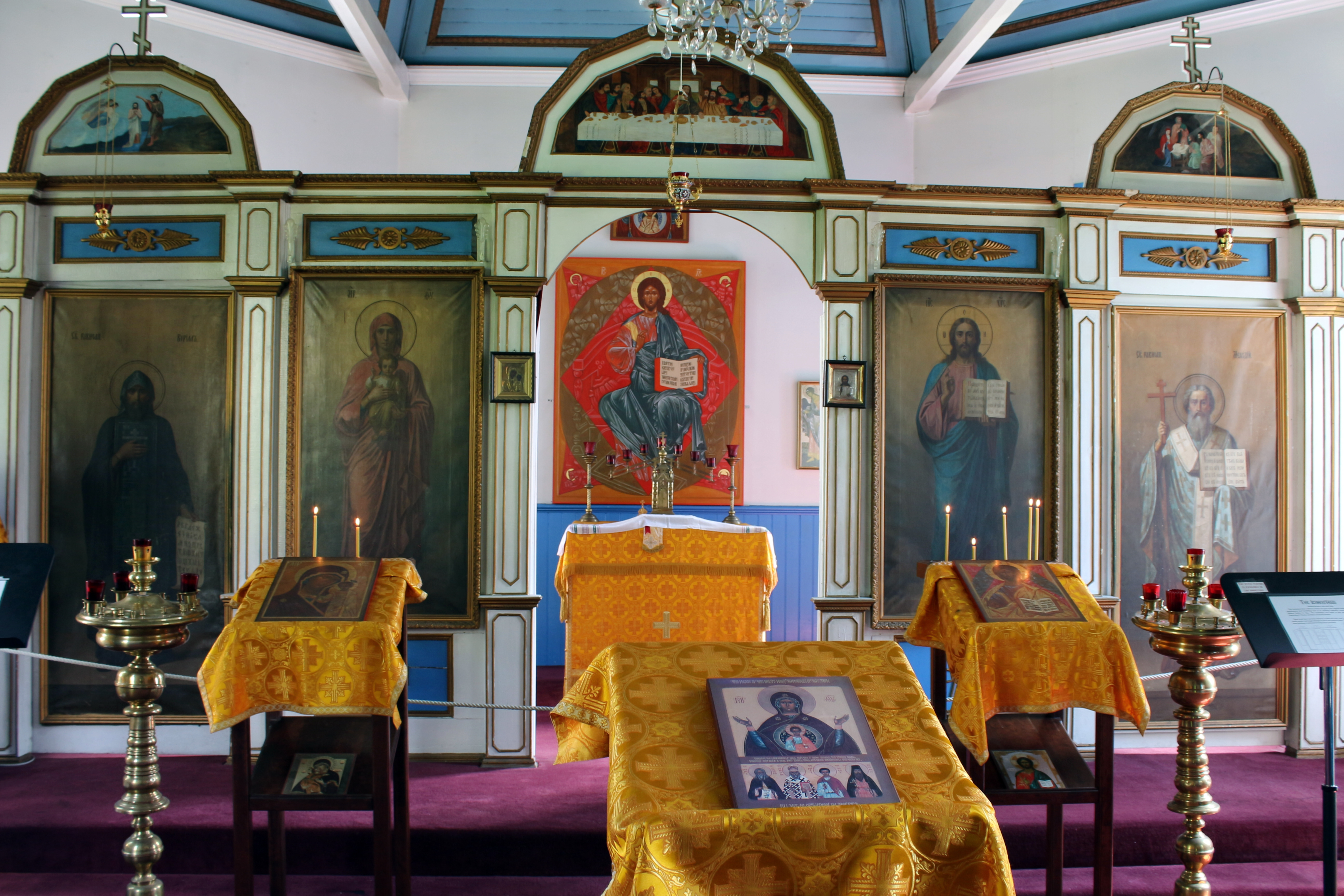 Interior details of Saint Nicholas Russian Orthodox Church in Juneau, Alaska, July 13, 2013. The icons of the sovereign tier, from left to right, St. Cyril, The Virgin Mary, Our Lord Jesus Christ, and St. Methodius.